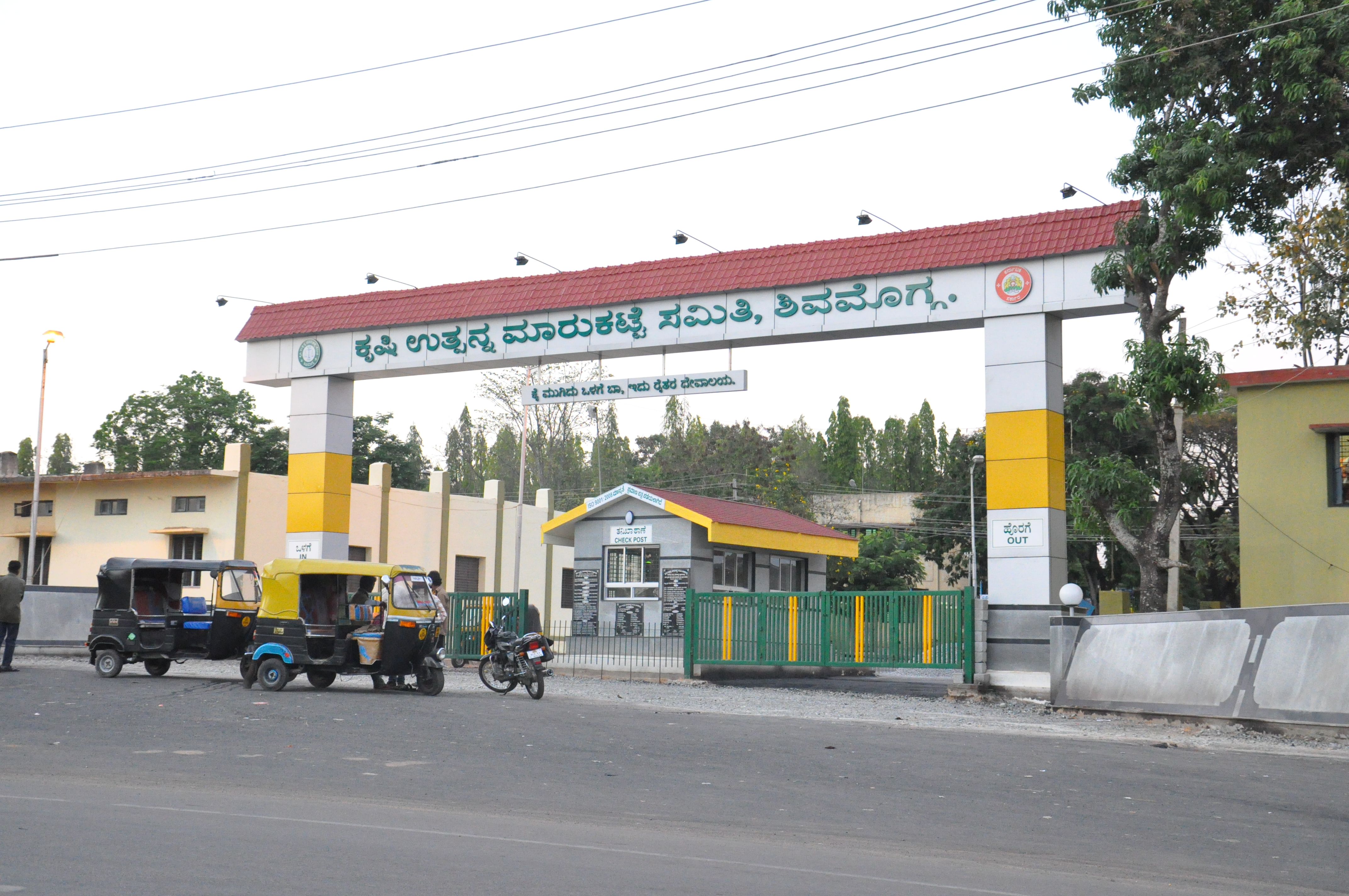 Shimoga